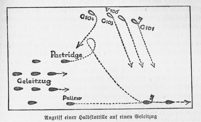 Drawing of the attack of German destroyers on a convoy close to Bergen on December 12 1917